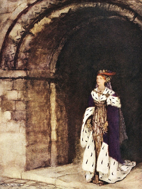 "How Dame Lionesse came forth arrayed like a princess." From The Romance of King Arthur (1917). Abridged from Malory's Morte d'Arthur by Alfred W. Pollard. Illustrated by Arthur Rackham. This edition was published in 1920 by Macmillan in New York.